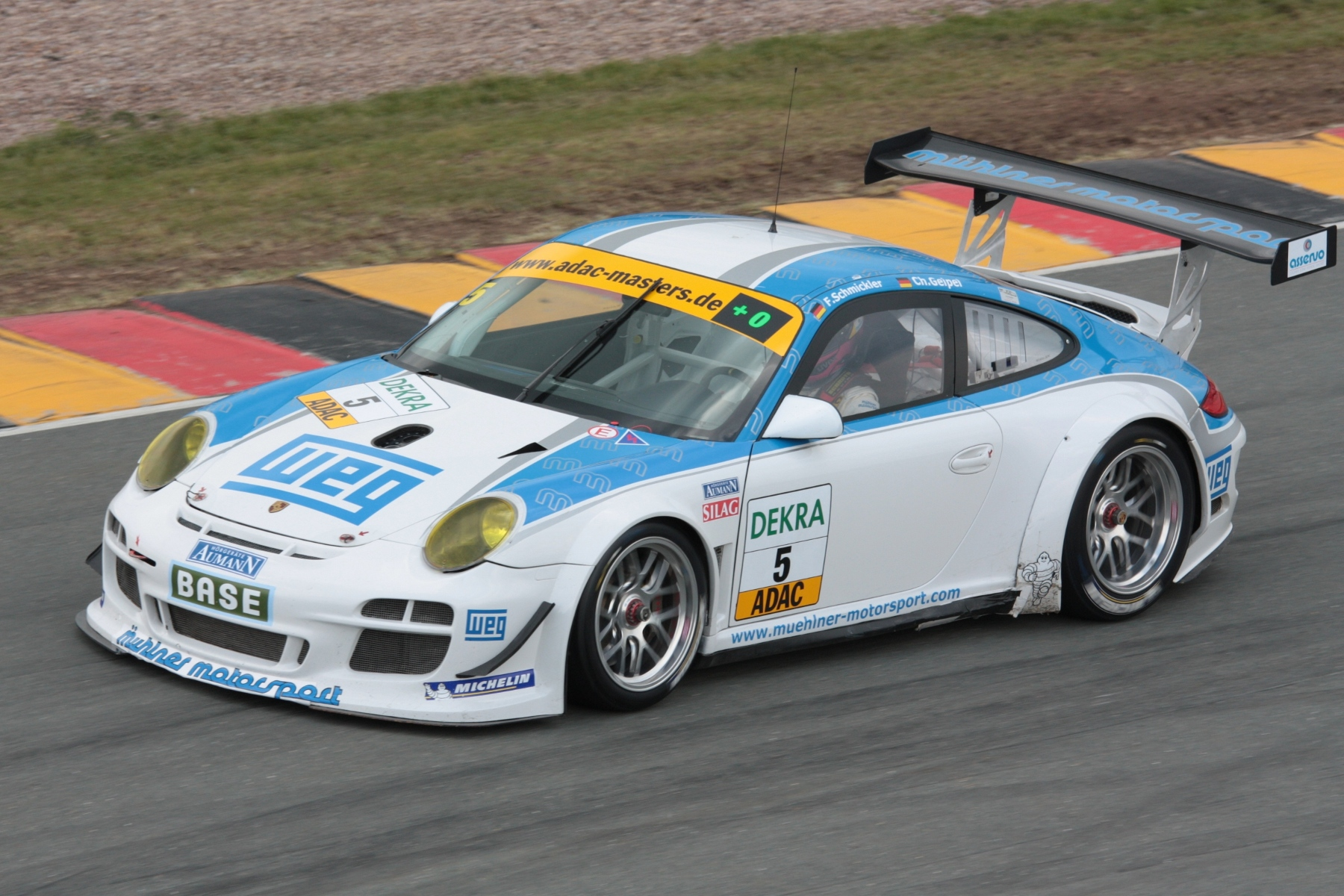 Frank Schmickler driving to the starting grid of the second ADAC GT Masters race at Sachsenring 2011.